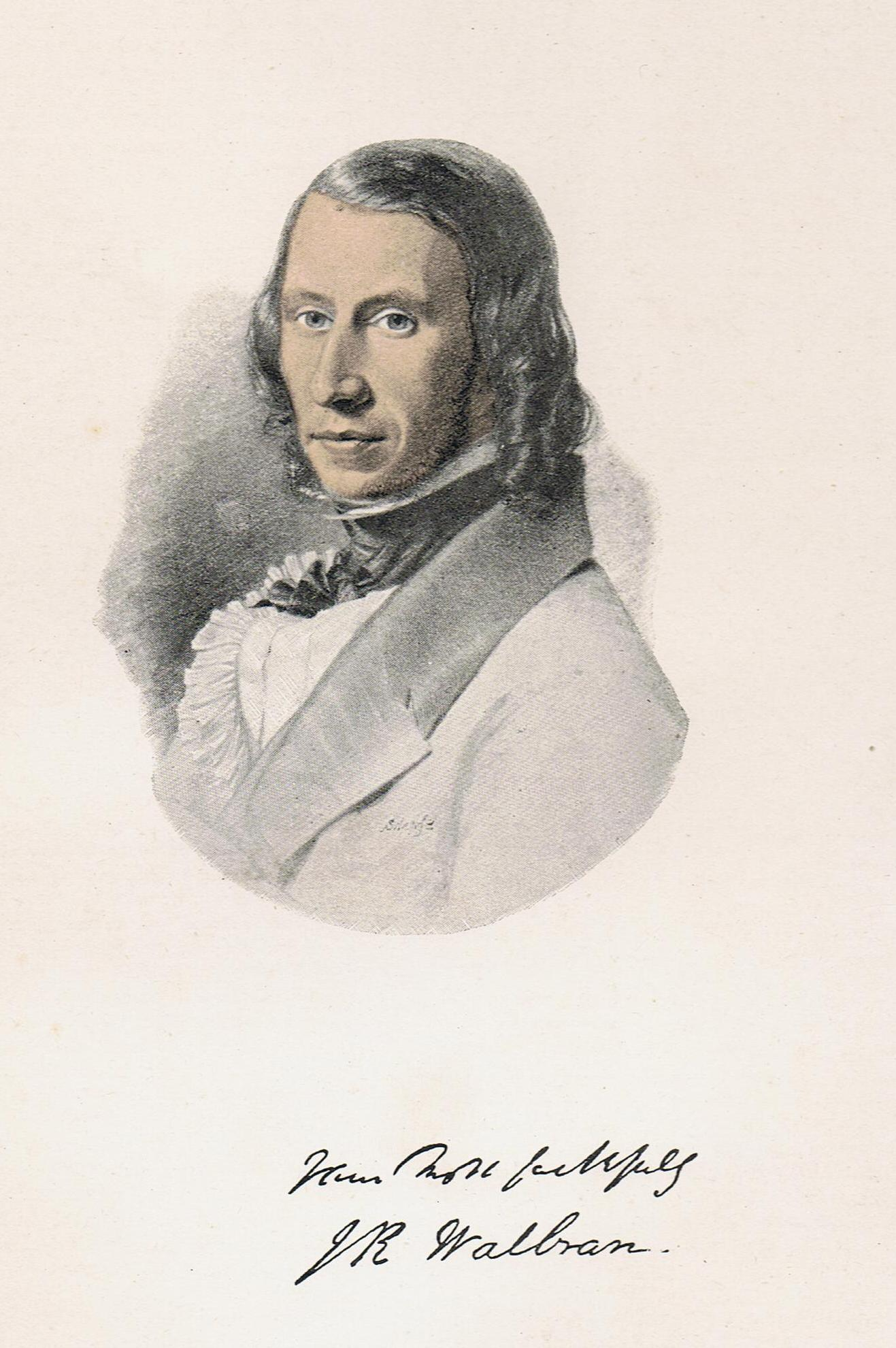 John Richard Walbran 1817-1868